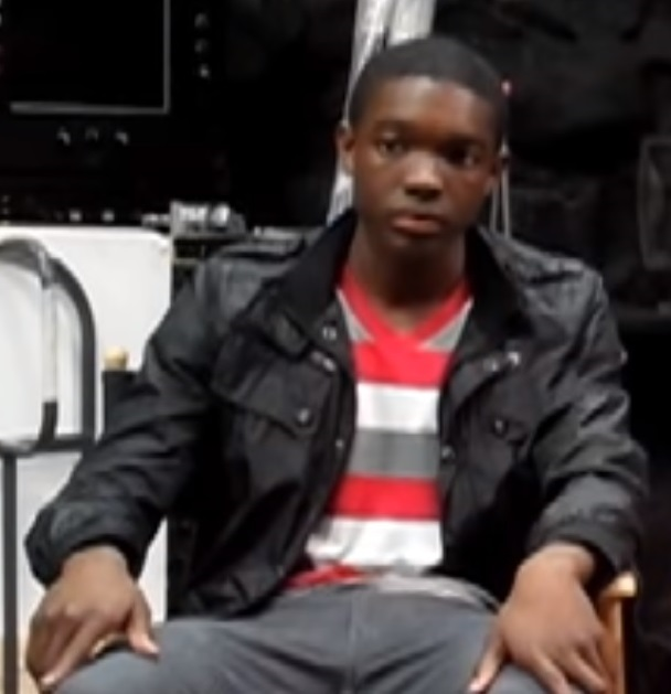 Ryan Potter, Gracie Dzienny and Carlos Knight from Nickelodeon's Supah Ninjas tell LA Teen Festival about their own real life martial art skills. You can read the entire interview at in issue #13.